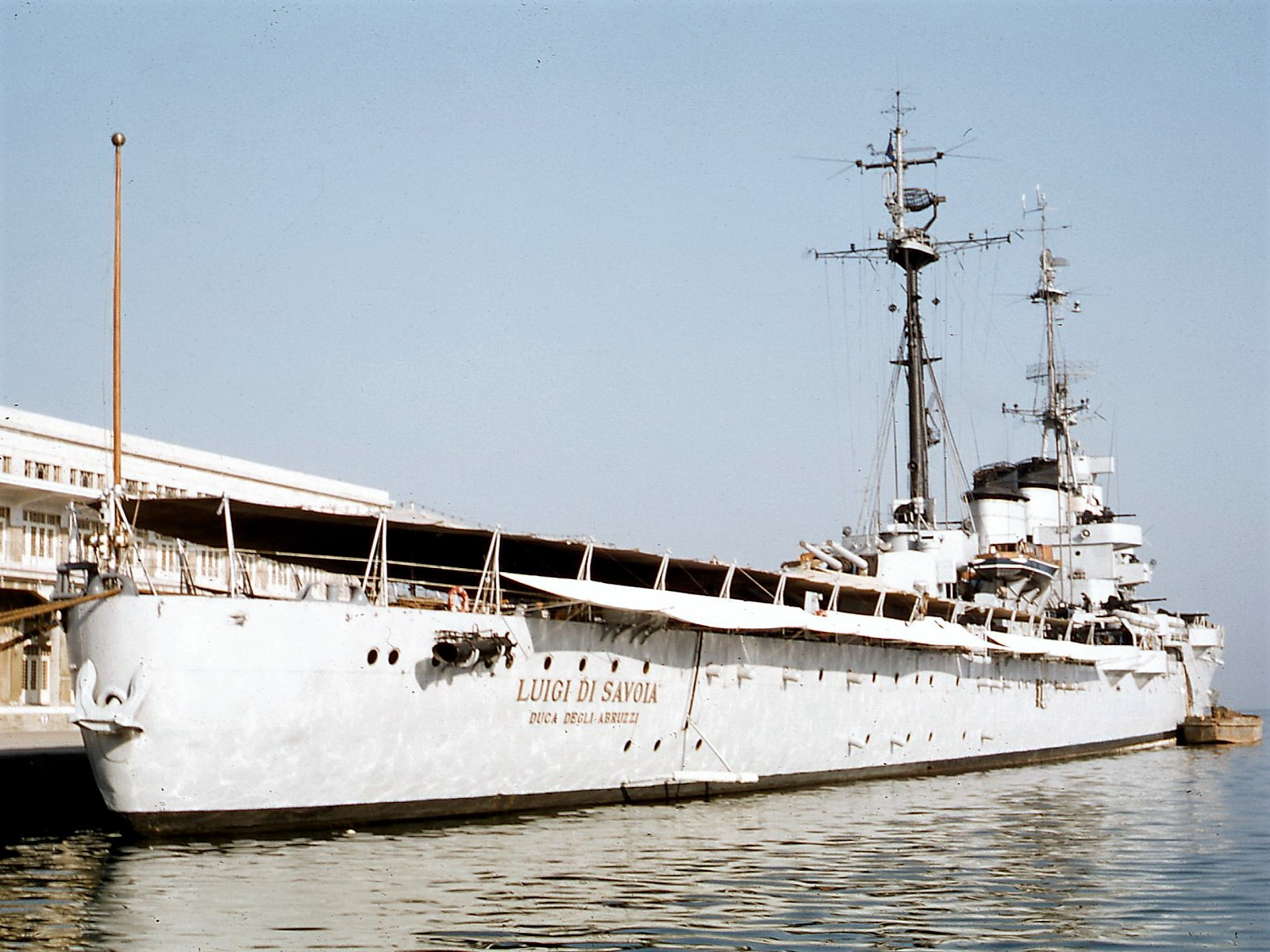 The cruiser Duca degli Abruzzi moored in Trieste.